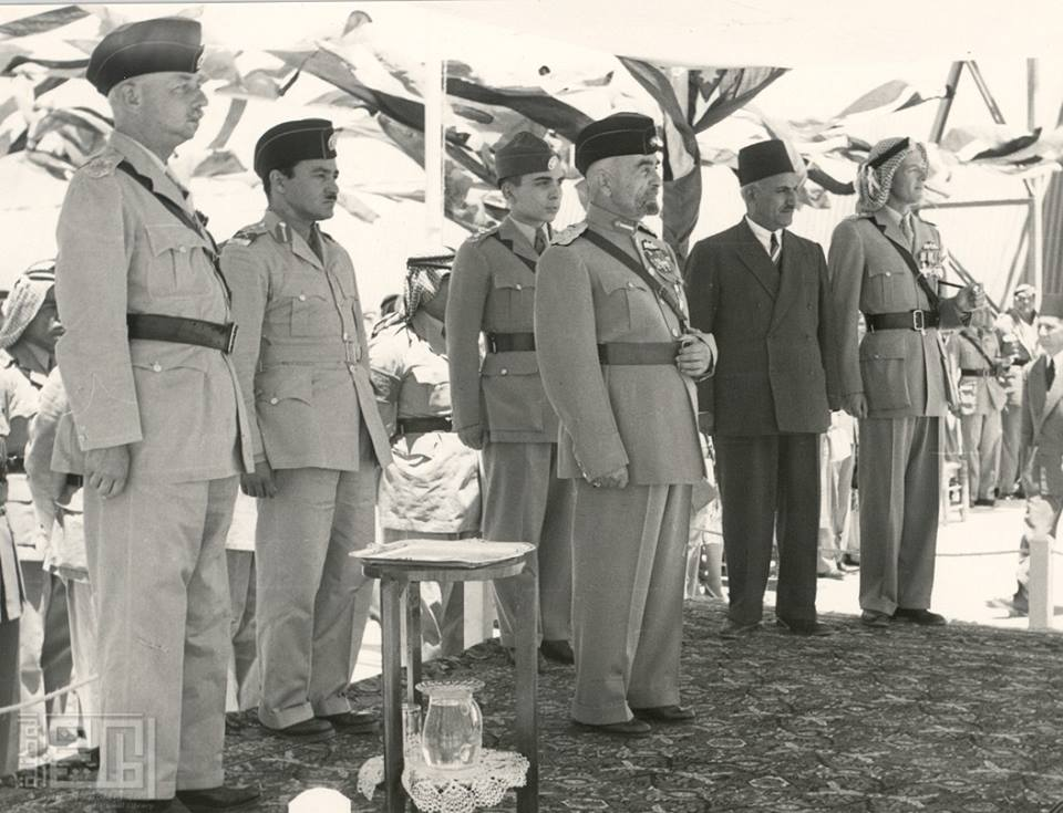 King Abdullah on Jordan Independence day, 25 May 1946. Young Hussein seen behind him, Glubb Pasha